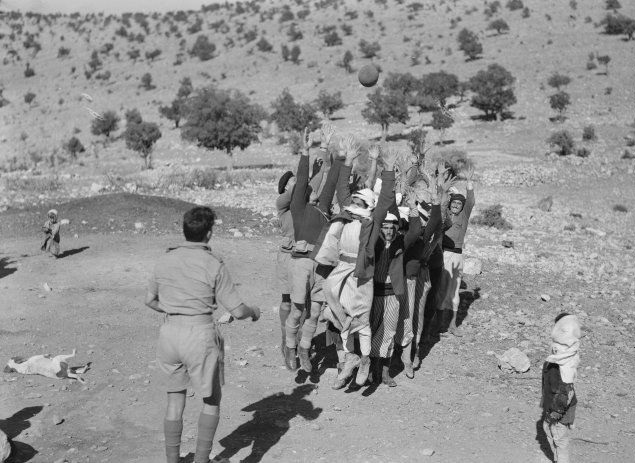 New Zealand World War 2 soldiers from Divisional Cavalry playing rugby with Syrian tribesmen at a mountain village in Syria.